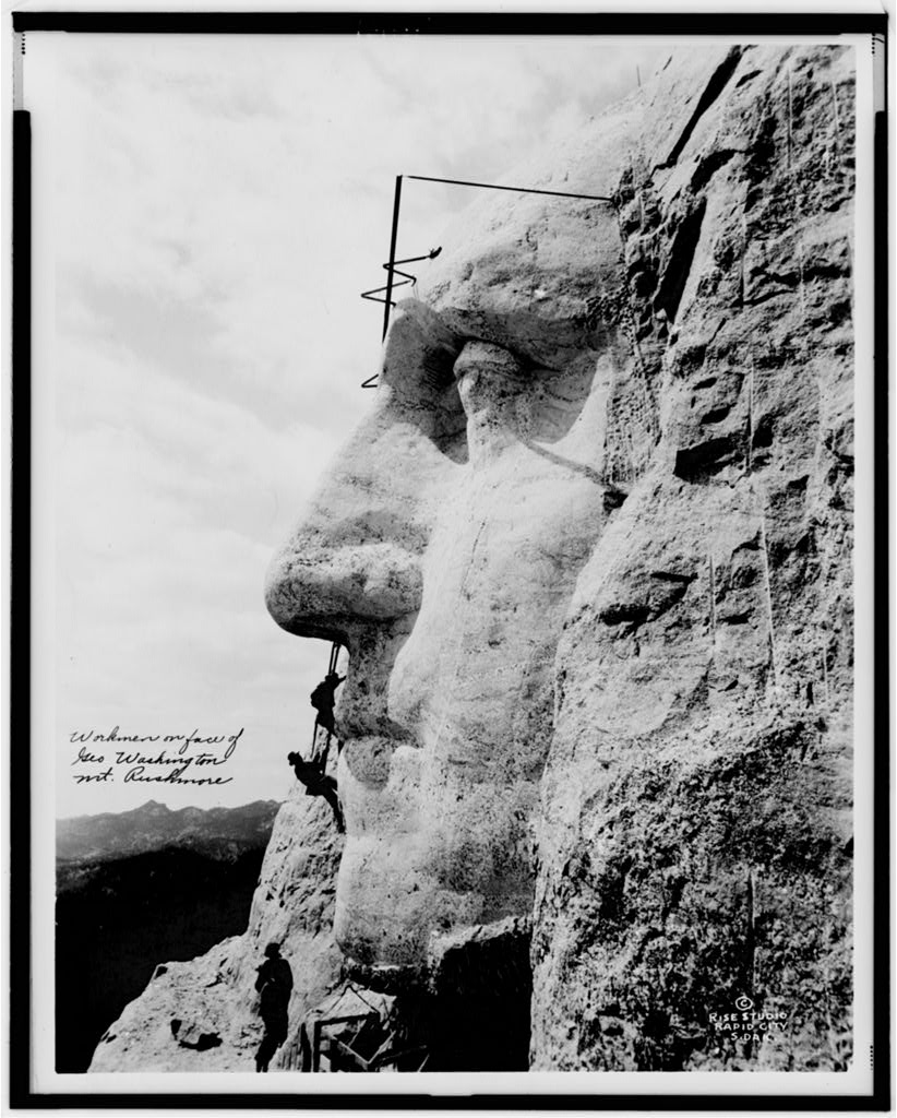 George Washington's likeness under construction on Mount Rushmore